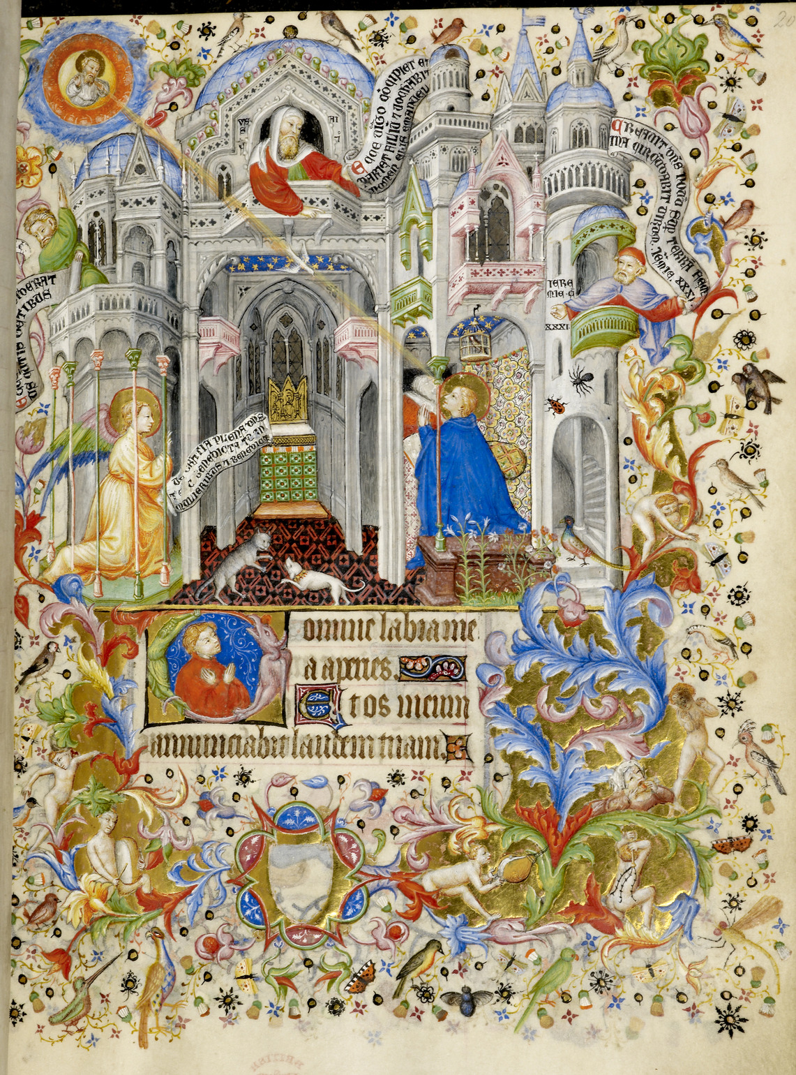 The Annunciation; a cat and dog play in the foreground; inhabited initial and decorated border with foliage, birds and figures